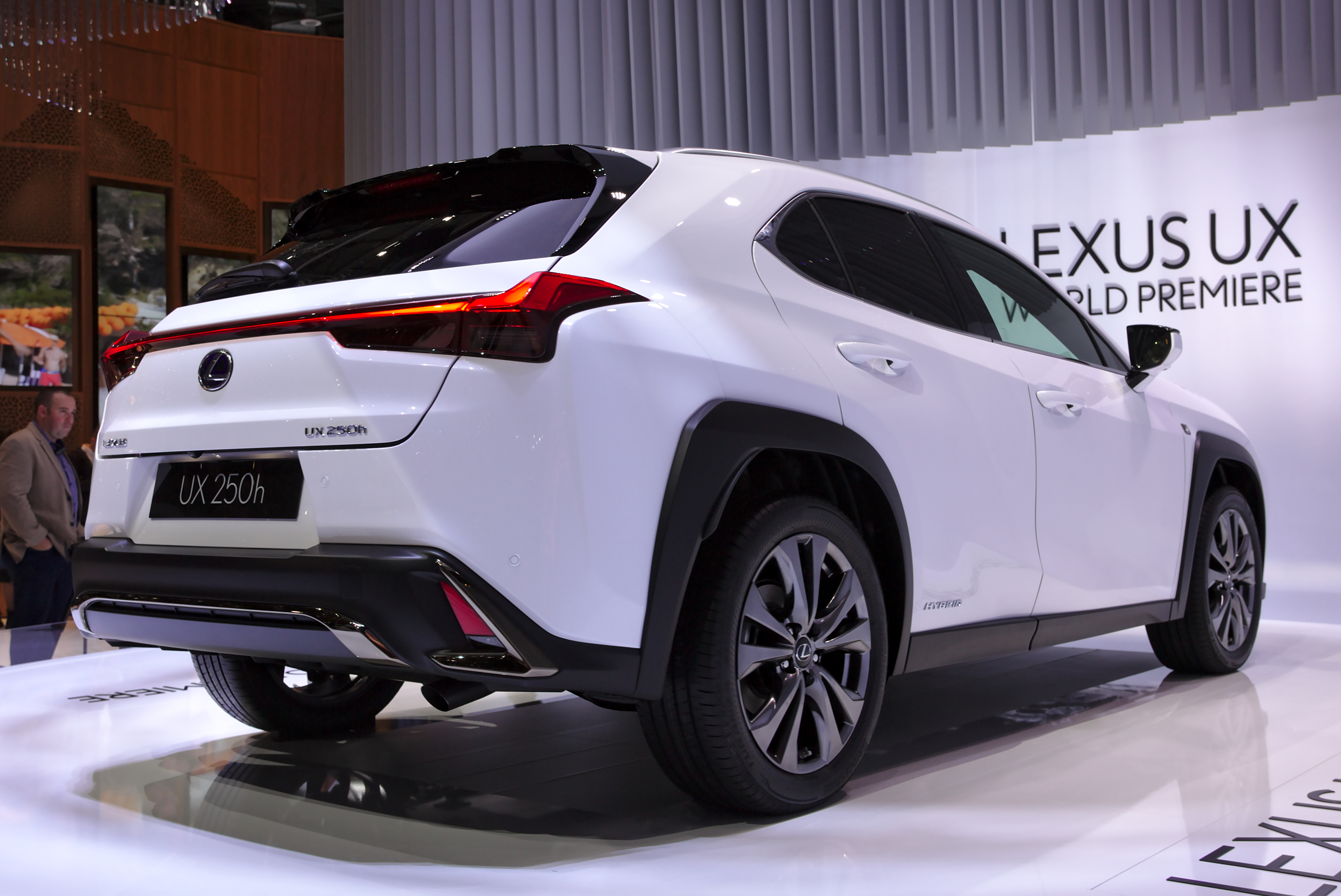 Lexus UX 250h at Geneva Motorshow 2018